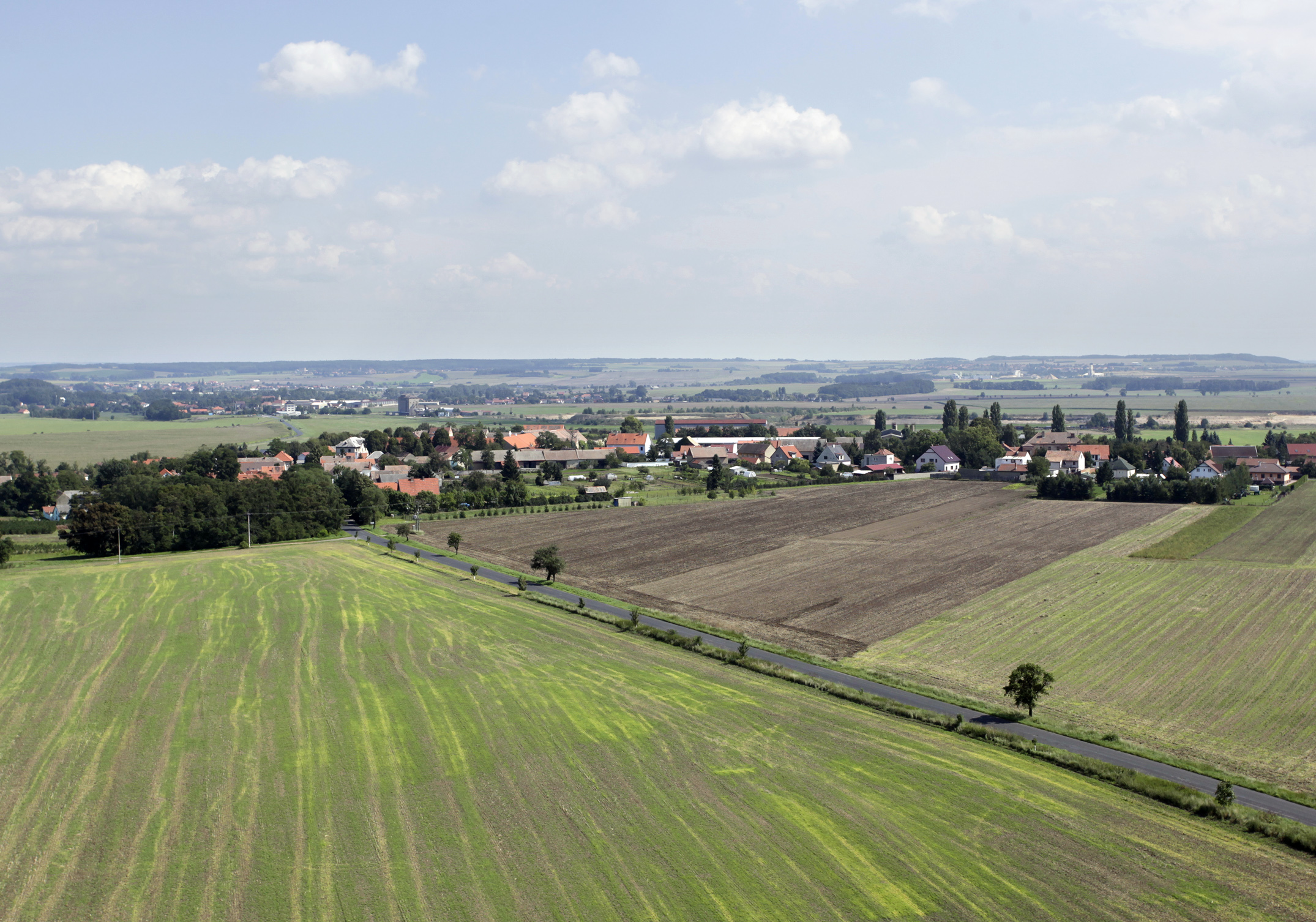 Bříza is a village and municipality (obec) in Litoměřice District in the Ústí nad Labem Region of the Czech Republic.